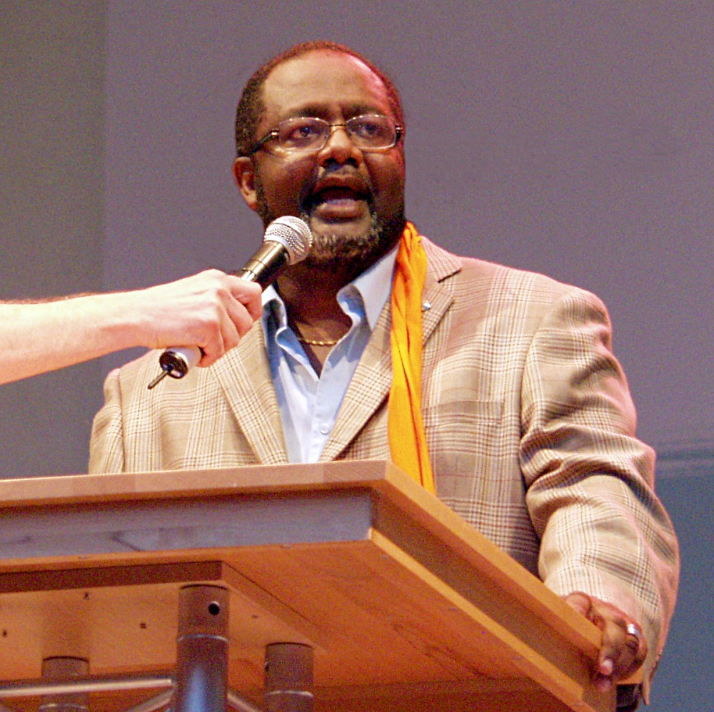 Jerome Ringo, President of Apollo Alliance, on the "Deutscher Evangelischer Kirchentag 2007"